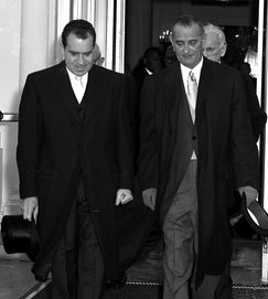 Vice President Richard Nixon leaves the White House to attend the Inaugural Ceremonies of his successor, former Texas Senator Lyndon Johnson